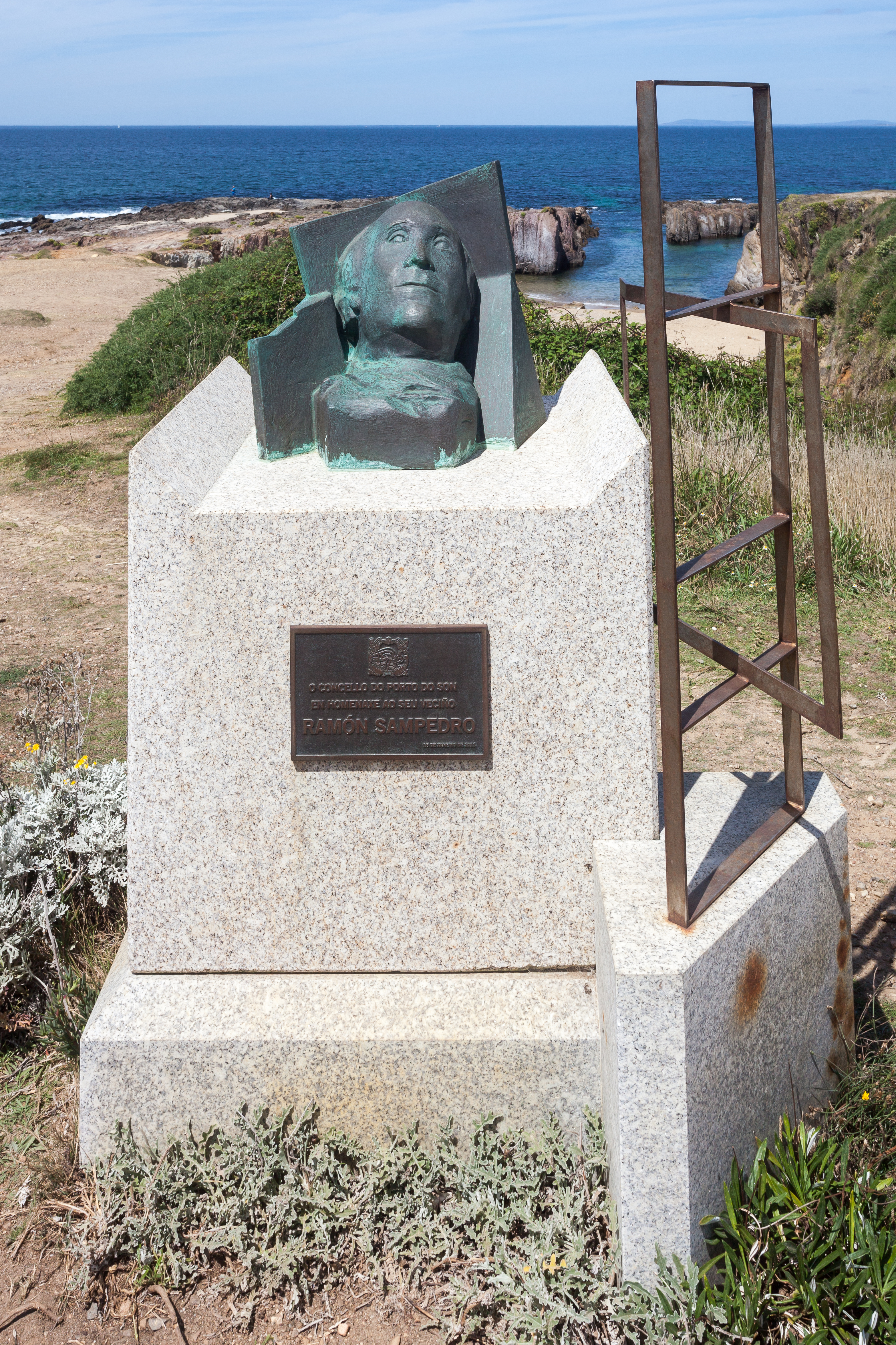 In memory of Ramón Sampedro by Nacho Costa Beiro, beach of As Furnas. Porto do Son. Galicia (Spain).